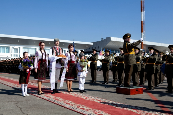 Official greeters await the arrival of Vice President Joe Biden and Dr. Jill Biden in Chisinau, Moldova, March 11, 2011. (Official White House Photo by David Lienemann)